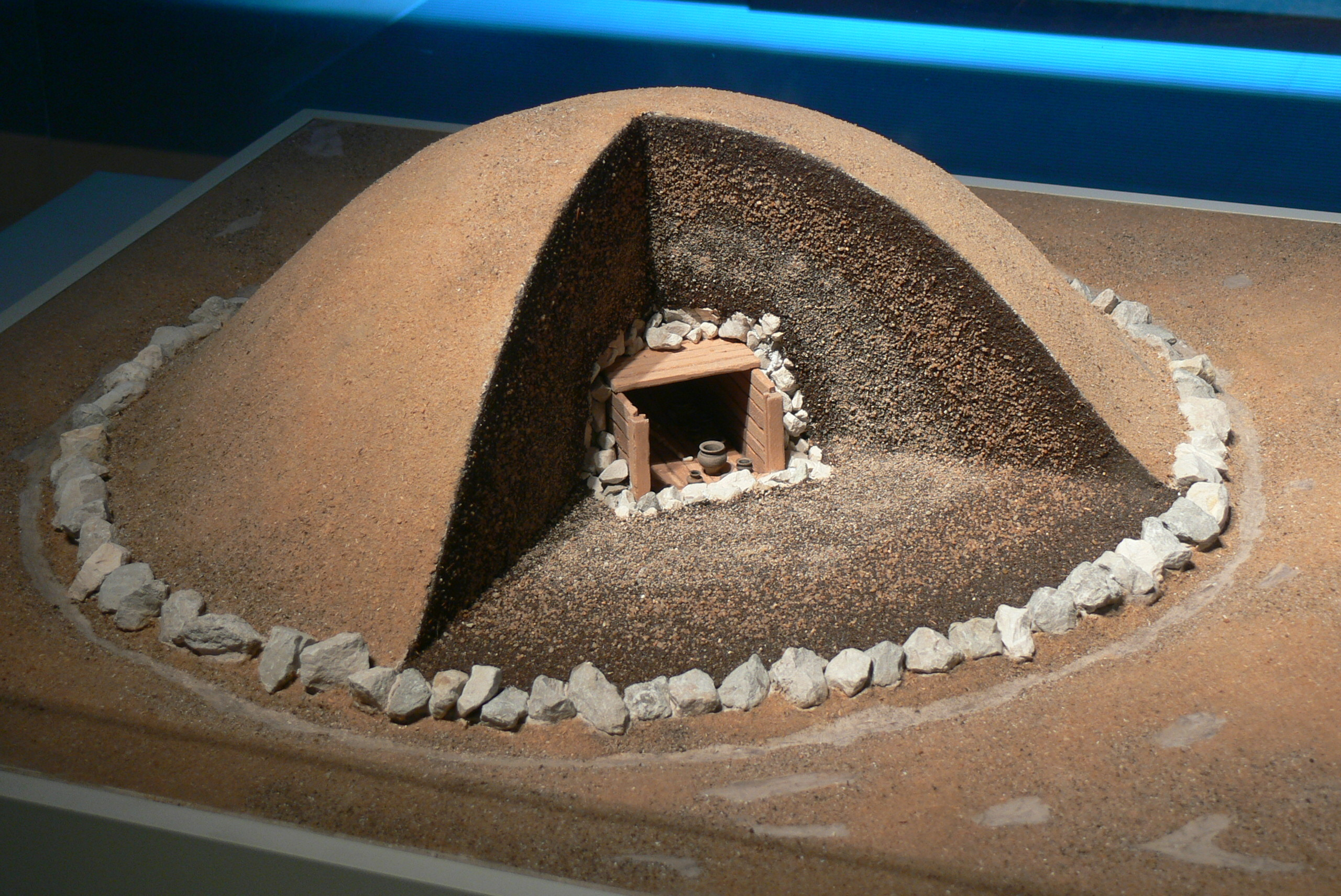 German National Museum ( Nuremberg / Germany ). Model of a barrow of the Hallstatt period.